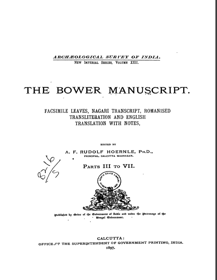 Title page of text edition